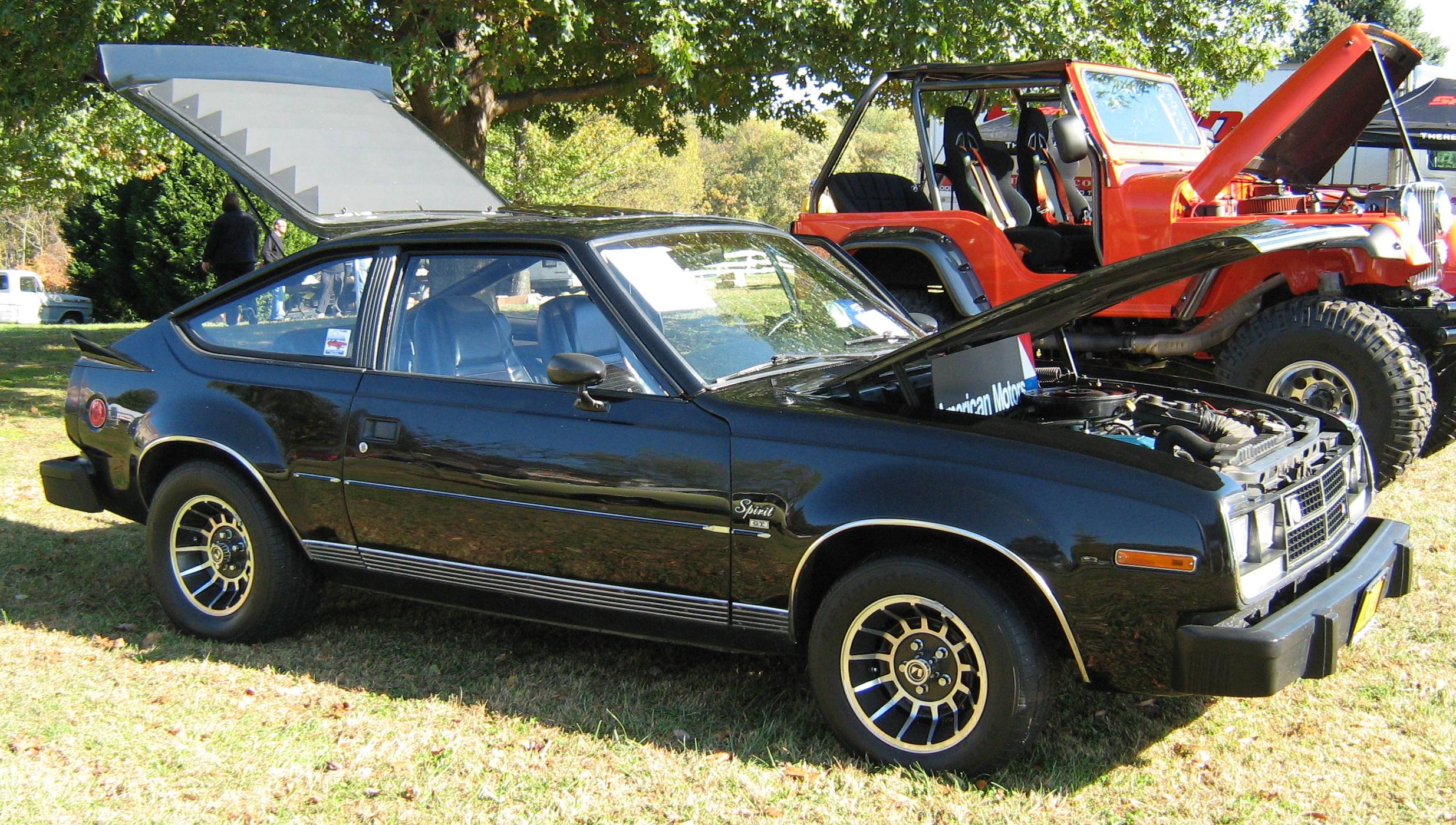 1983 Spirit GT by American Motors Corporation (AMC). This car has a replacement Jeep straight six 4.0 L engine.